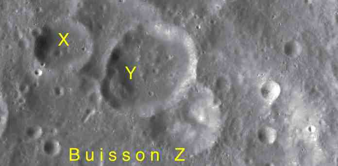 Part of the chart LAC-65 used for the presentation